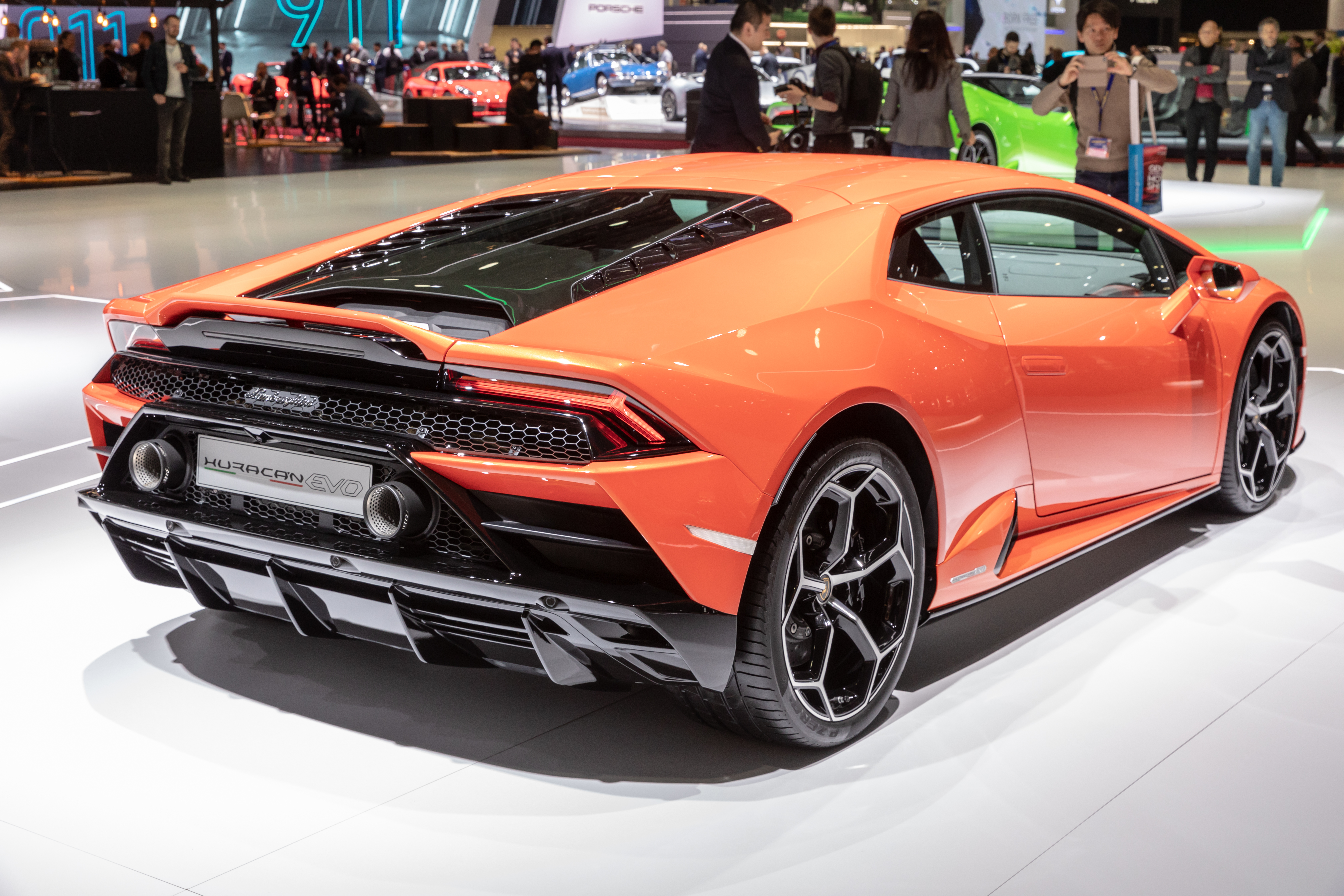 Geneva International Motor Show 2019, Le Grand-Saconnex